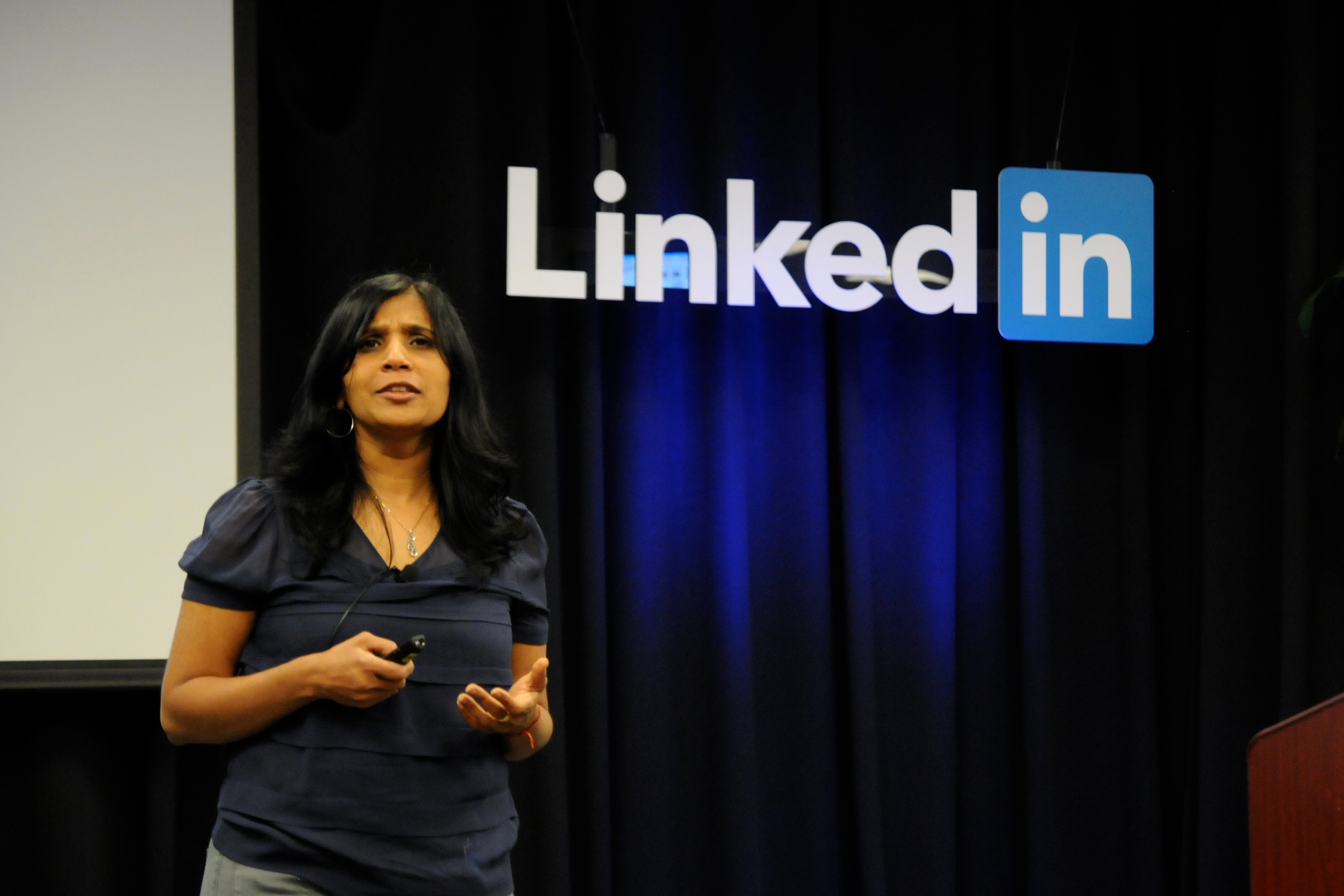 Rashmi Sinha of slideshare at LinkedIn, Mountainview California